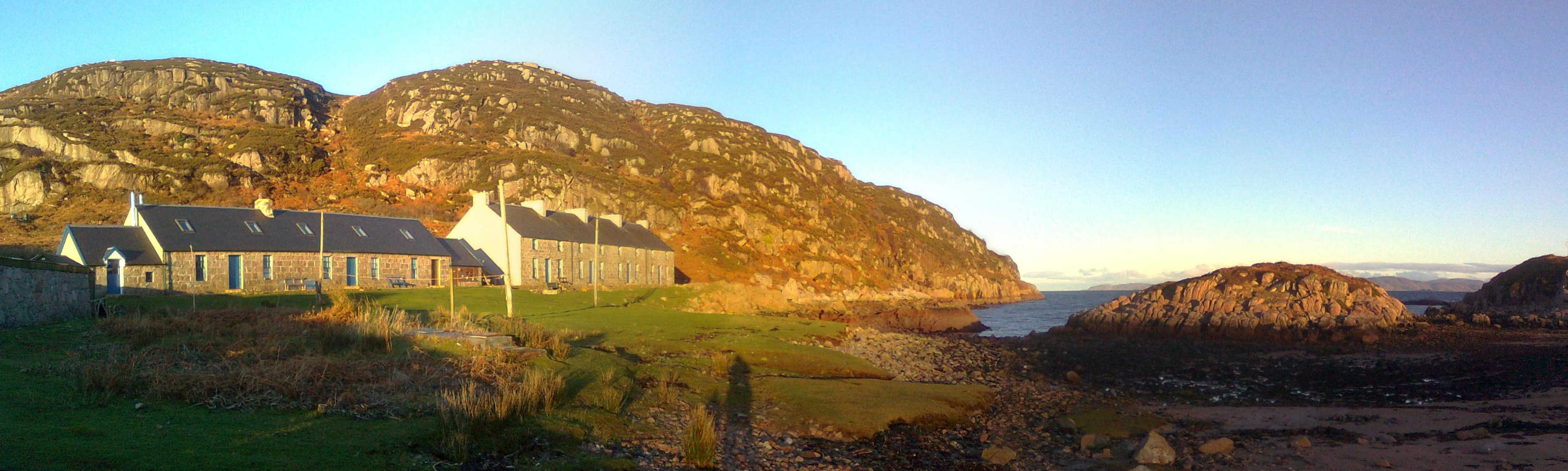 Cottages in Camas Tuath, Isle of Mull - Quarrymen's cottages renovated into an outdoor activity centre known as 'Camas' on the Isle of Mull, UK. Run by the Iona Community.